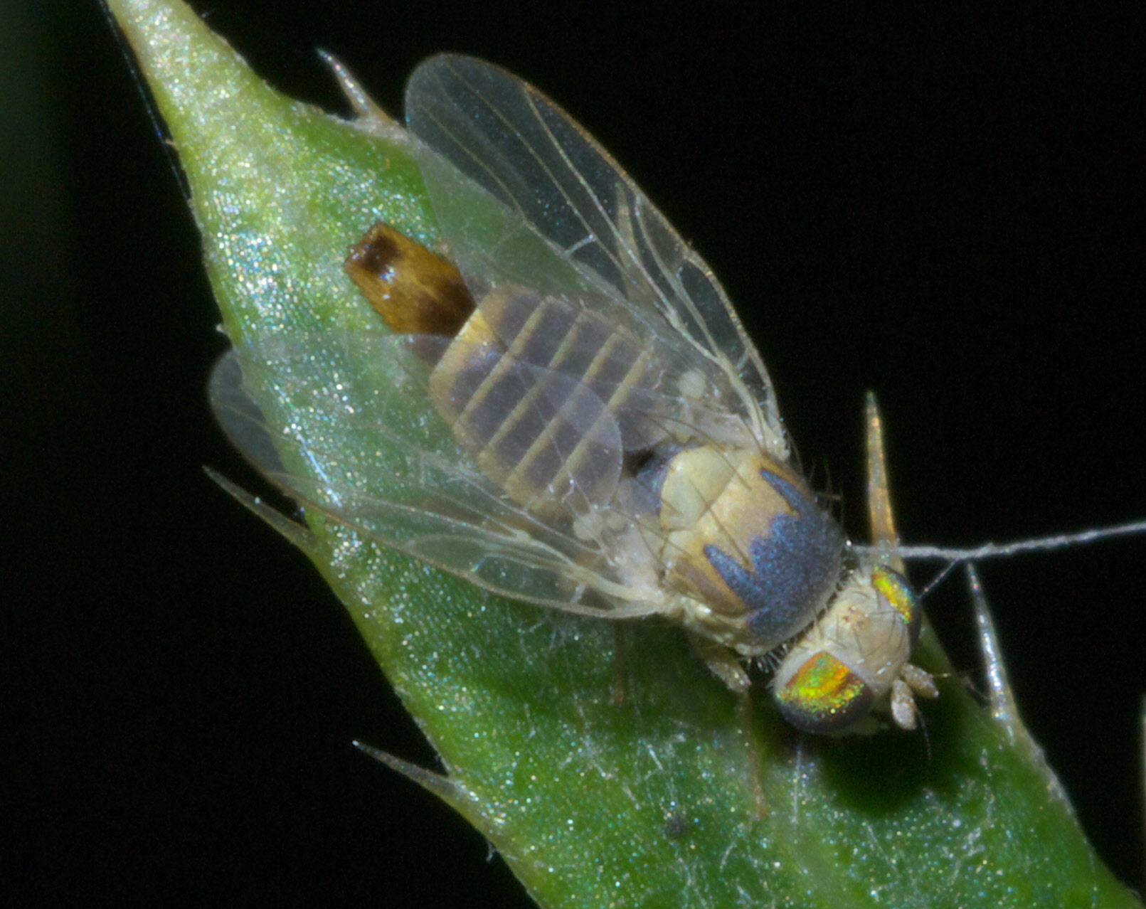 Neaspilota, Family: Fruit Flies, Size: 3.7 mm, ID Confidence: 90